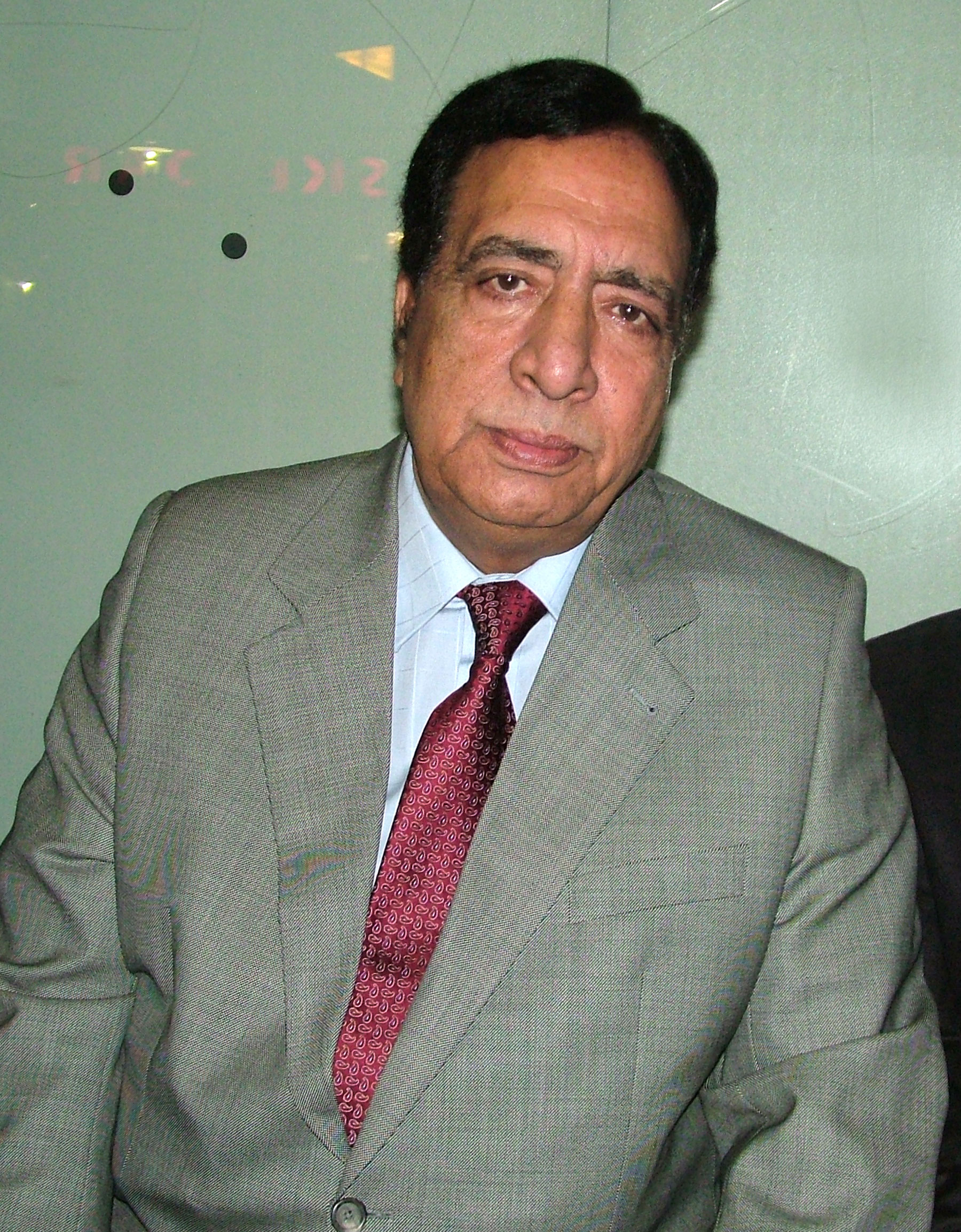 Atta ulhaq qasmi visting OSLO, Norway